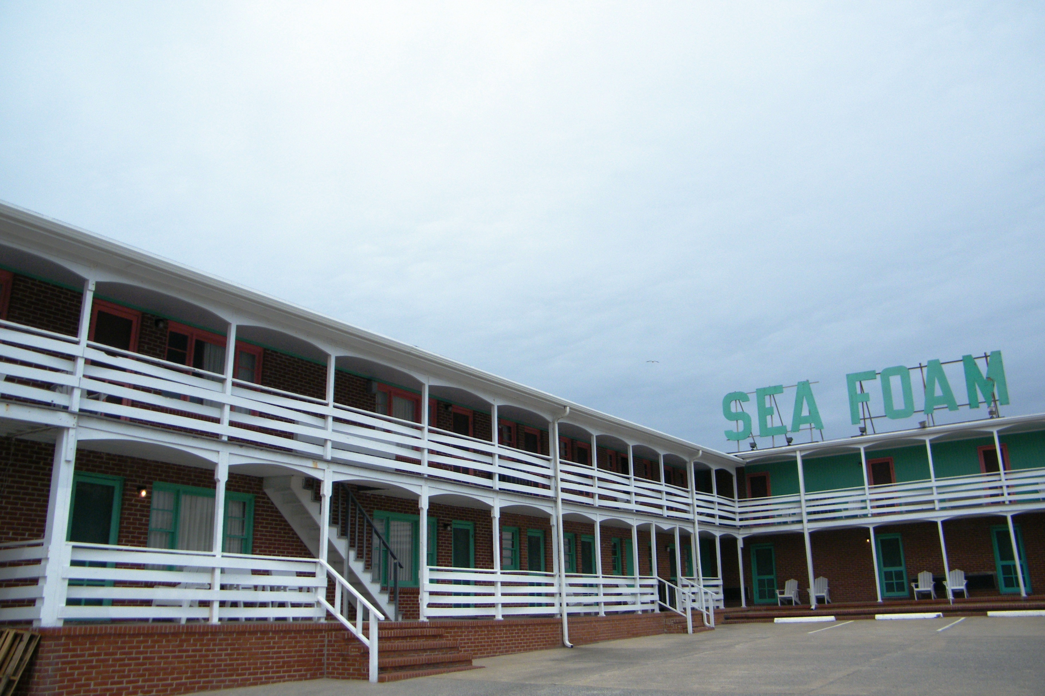 Sea Foam Motel on the NRHP since December 23, 2004. At 7111 S. Virginia Dare Trail, Nags Head, Dare County, North Carolina